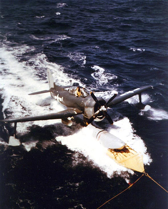 The U.S. Navy large cruiser USS Alaska (CB-1) recovering a Curtiss SC-1 Seahawk floatplane on 6 March 1945, during the Iwo Jima operation. The aircraft is awaiting pickup by the ship's crane after taxiing onto a landing mat. The pilot was Lieutenant Jess R. Faulconer, Jr., USNR. Removed caption read: Photo # K-3747 USS Alaska recovering an SC-1, 1945